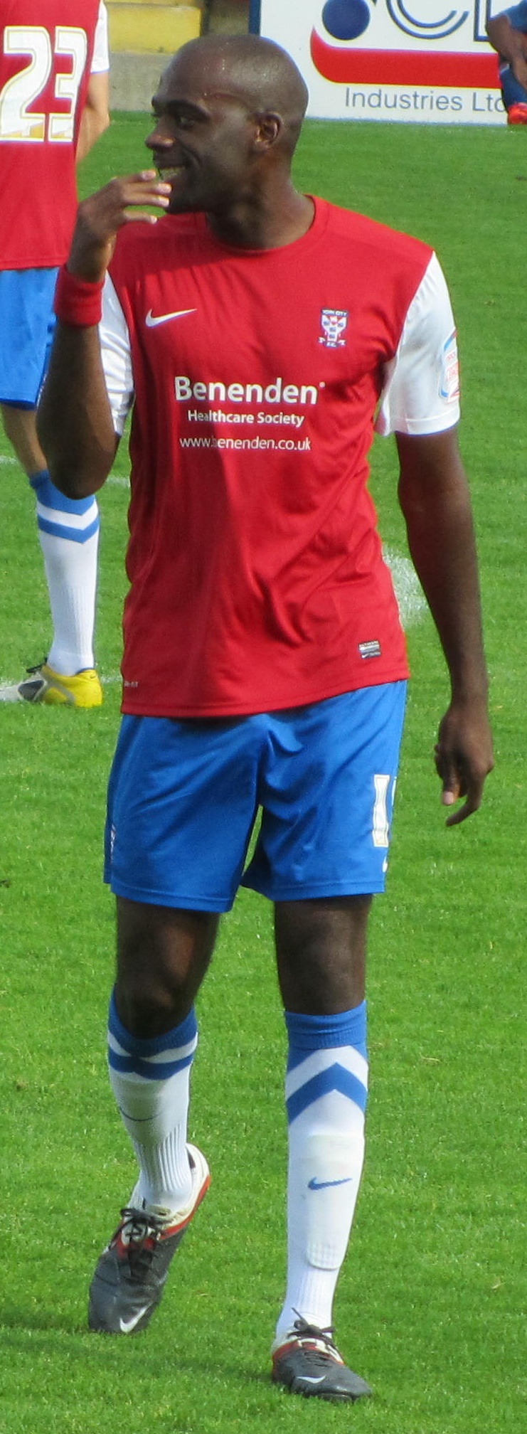 Jamal Fyfield